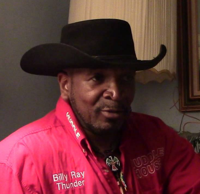 Profile pic of Billy Ray Thunder at his parents home in Akron, Ohio.